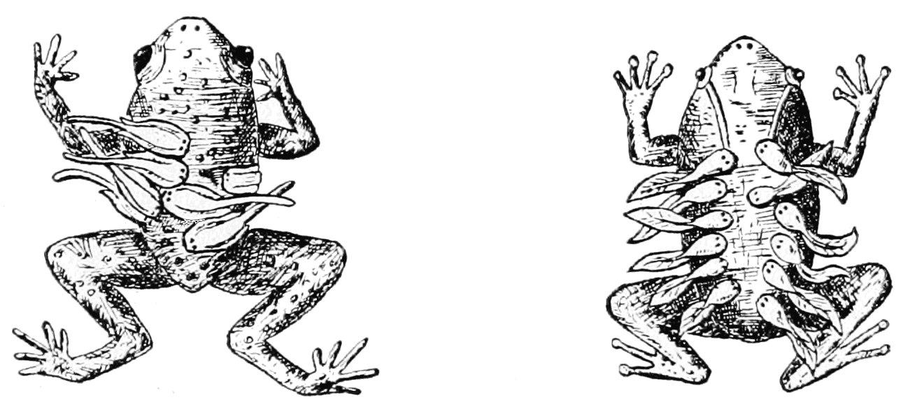 Seychelles and the Dutch Guianese frogs with their young Sooglossus sechellensis = left Craugastor lineatus = right